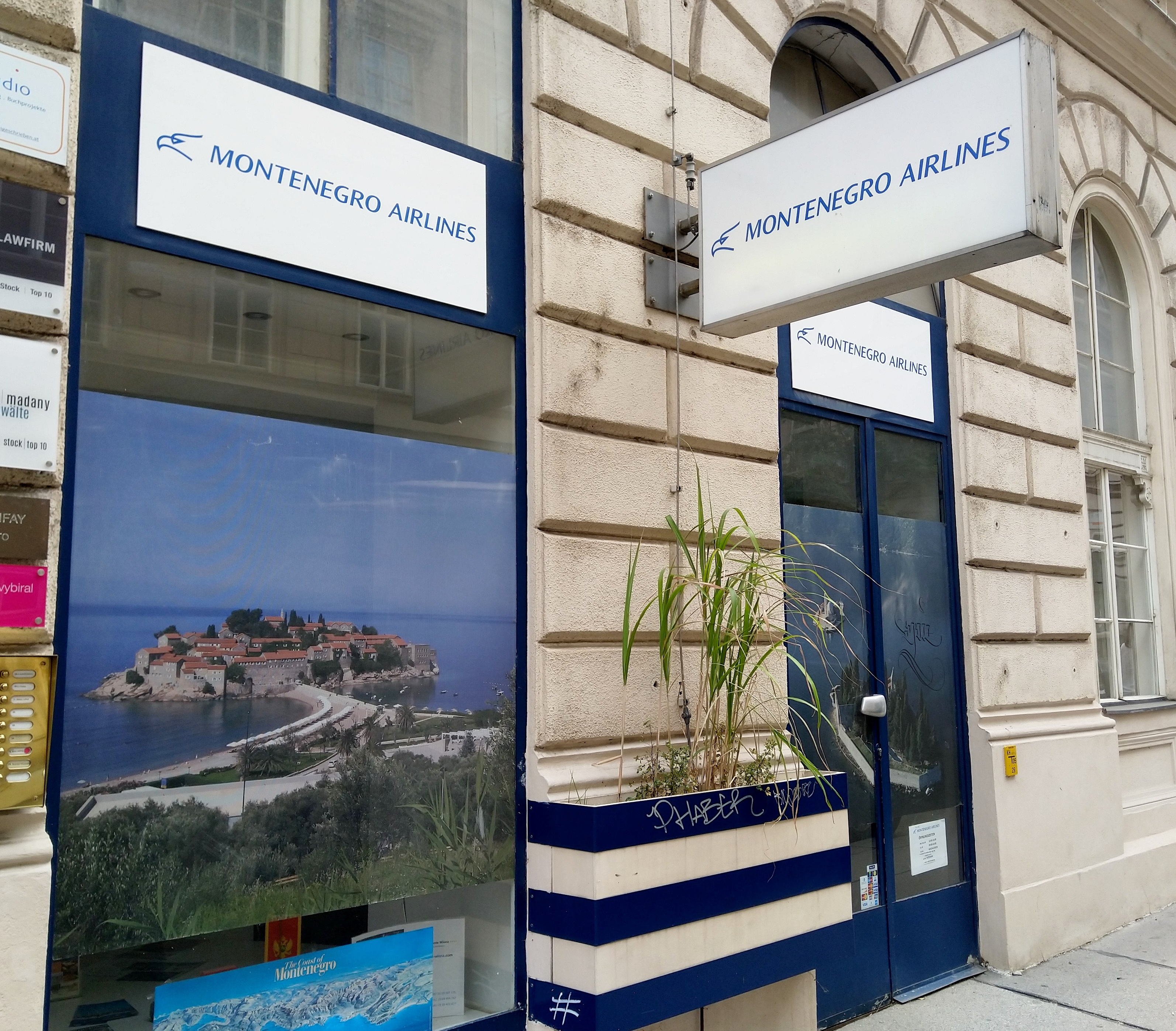 Montenegro Airlines office in Vienna, Austria